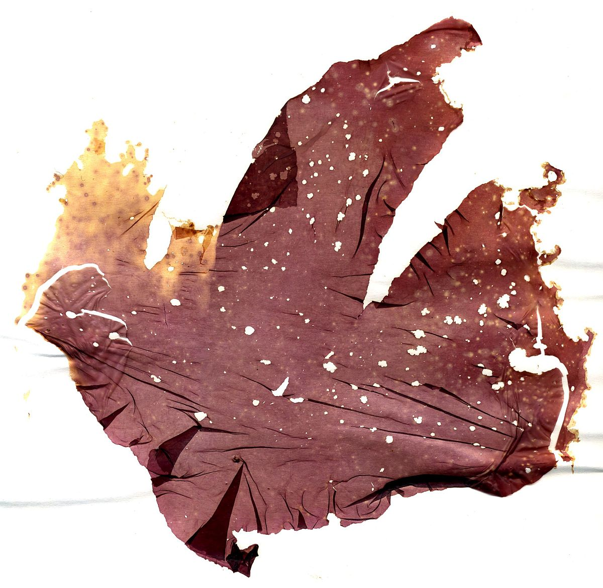 Porphyra purpurea (Roth) C.Ag., herbarium sheet. Collected 1989-08-08, Heligoland (Germany).